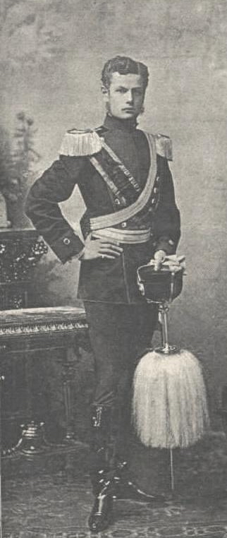 Portrait of Albert, 8th Prince of Thurn and Taxis (1867-1952)